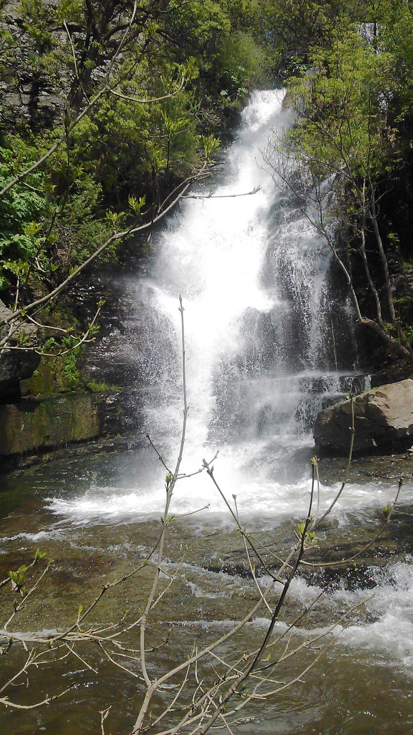 Khosrov forest